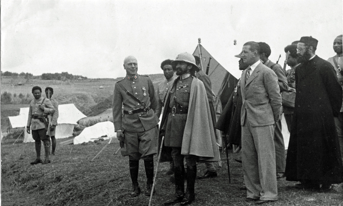 Dr Winckel meets Haile Selassie.